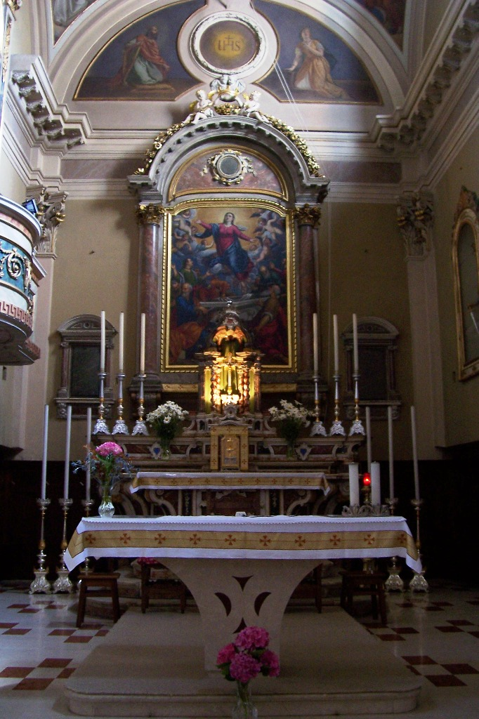 Altar of the Church of Santa Maria Assunta. Cimbergo, Val Camonica